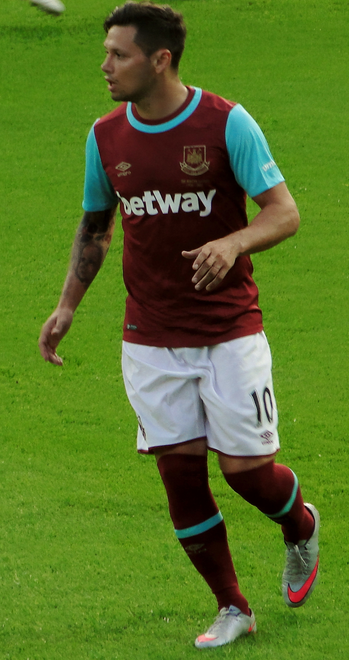 West Ham United player, Mauro Zárate playing in their Europa League game against FC Lusitans at the Boleyn Ground, July 2015